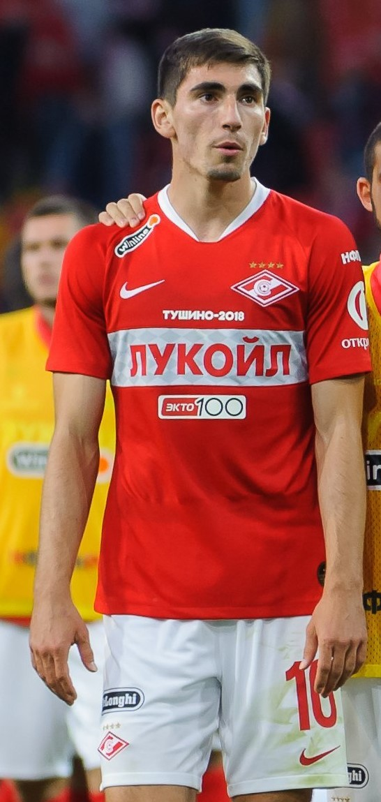 Zelimkhan Bakayev with FC Spartak Moscow in a game against PFC Sochi